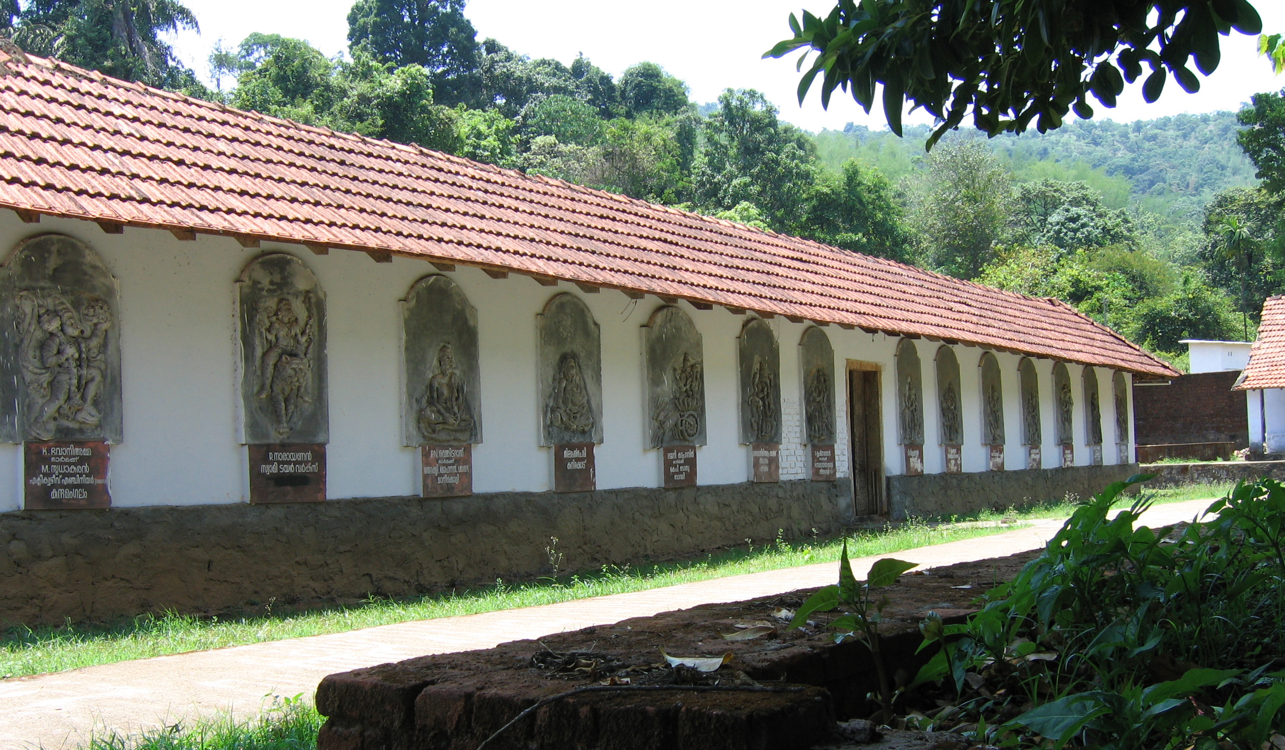 Thrissilery Siva Temple